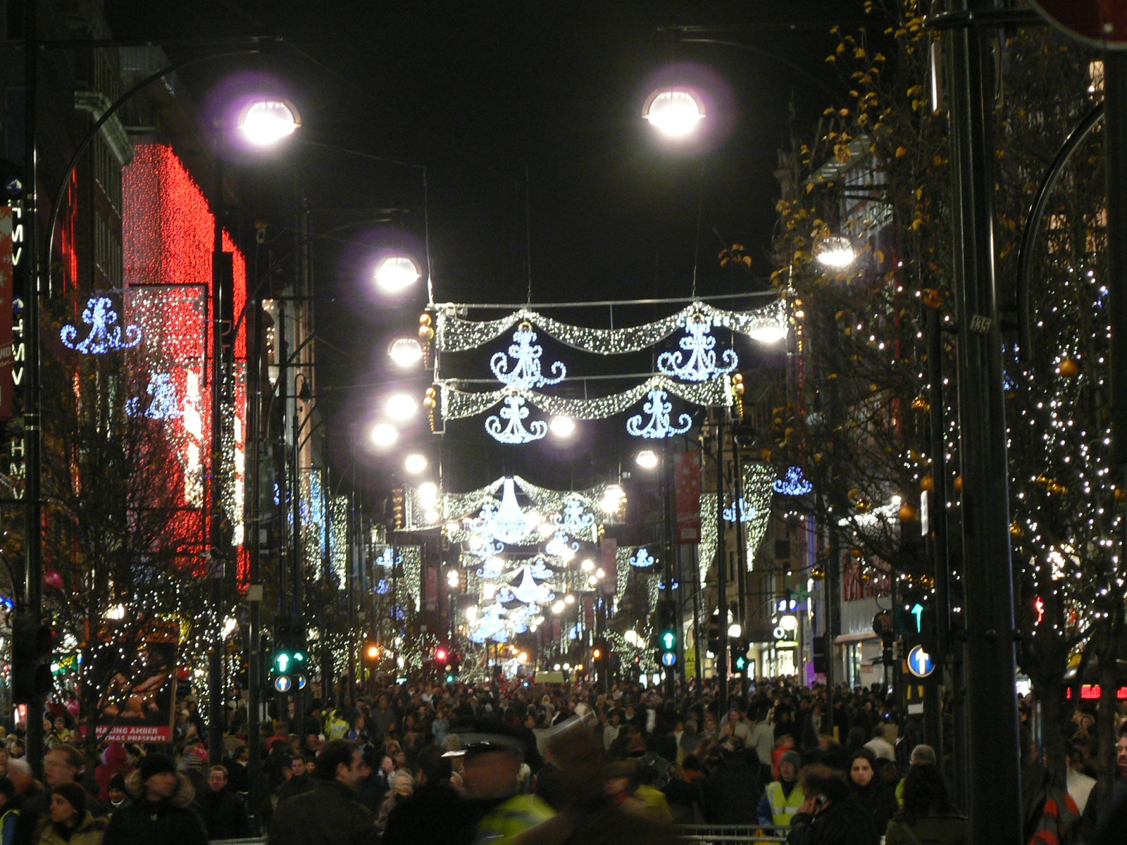 Oxford Street pedestrian day